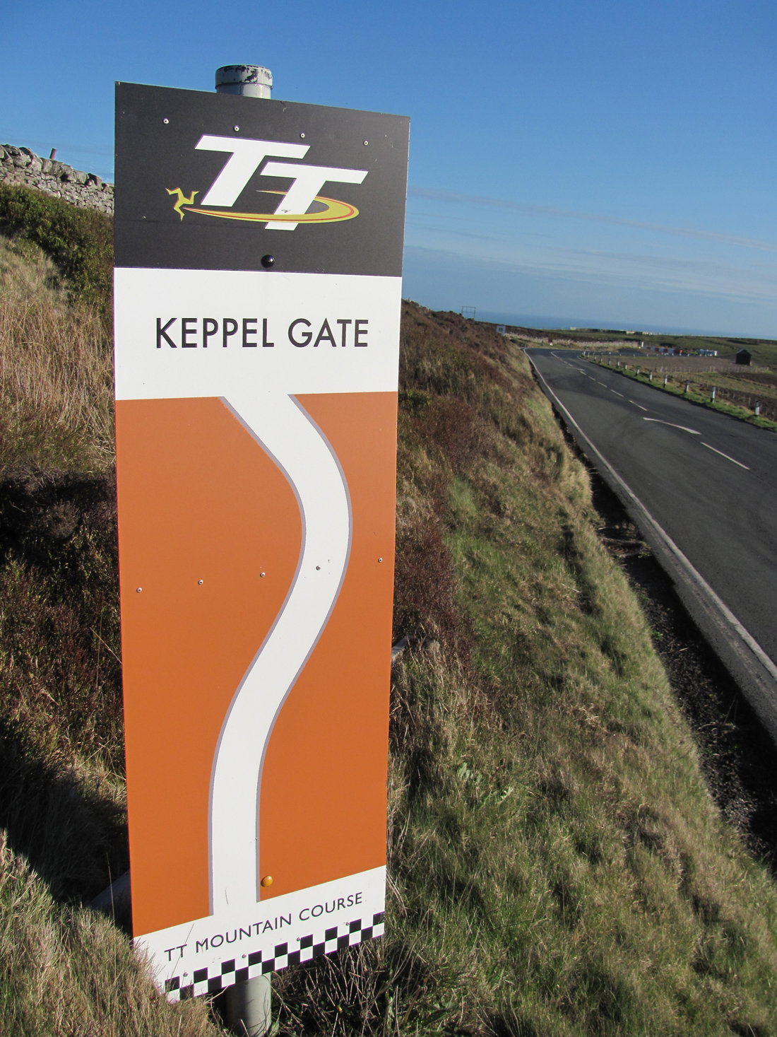 Description : Keppel Gate, A18 Mountain Road: 25th April 2015 Source : 11th Milestone at en.wikipedia Permission See below